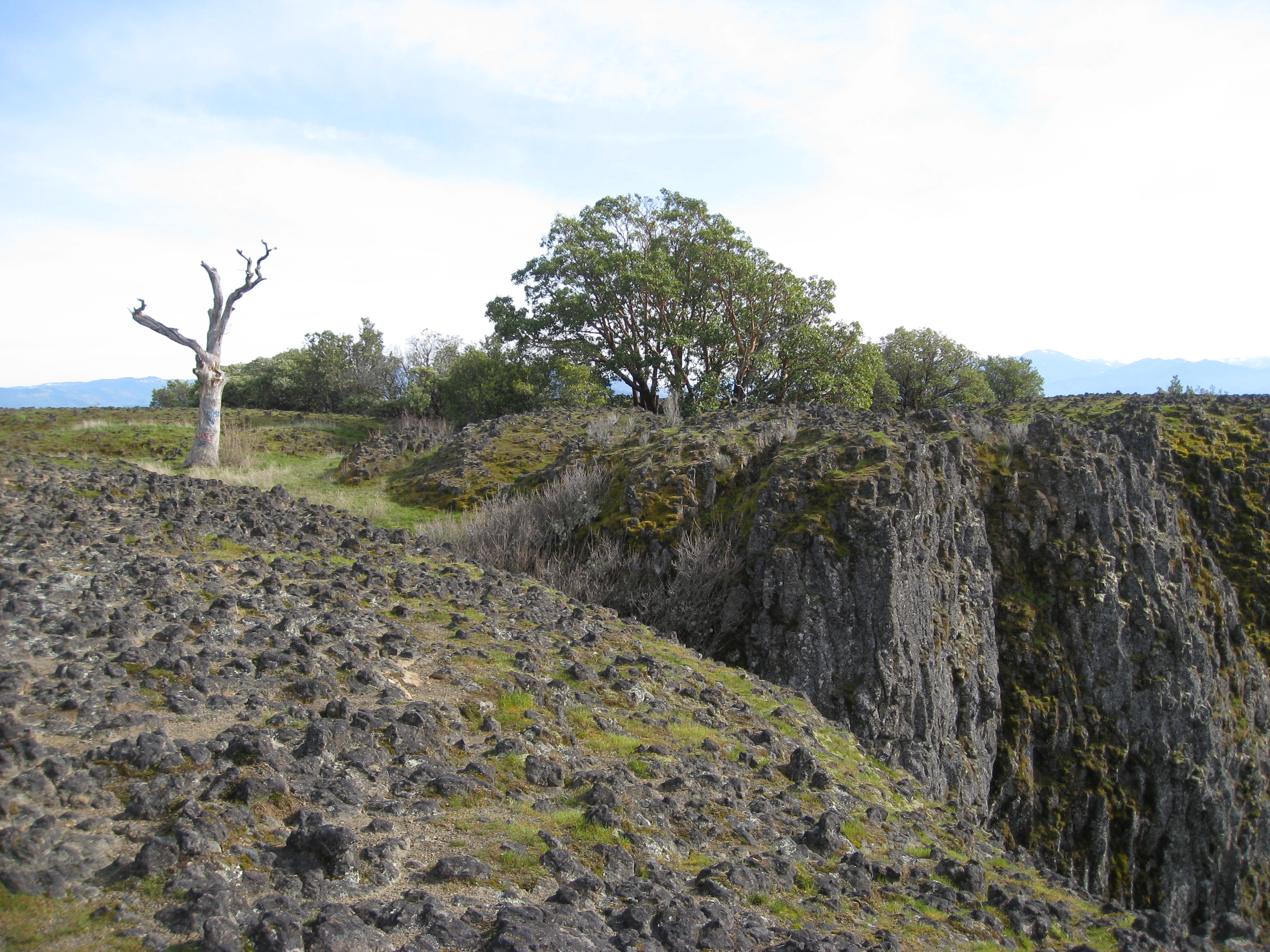 seawt10 190